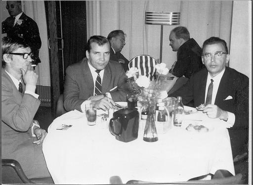 Finnish songwriter Juha Vainio, singer Eino Grön and singer Olavi Virta in 1965.